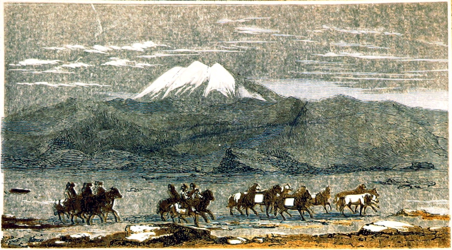 Image extracted from page 169 of "Visit to Iceland and the Scandinavian North ... Second edition. [With plates.]"', by PFEIFFER, Ida Laura.. Original held and digitised by the British Library. Copied from Flickr. Image rotated, cropped, levels adjusted